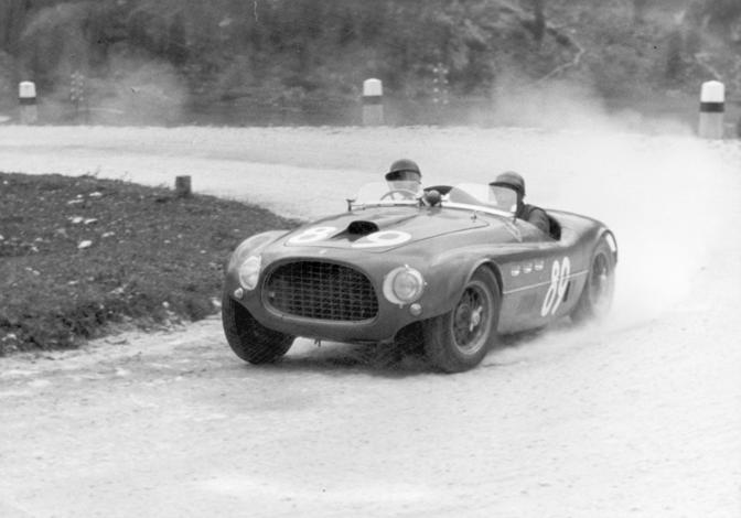 Paolo Marzotto won 1953 Coppa Dolomiti on 12 July 1953 in the 1953 Ferrari 250 MM Vignale Spyder s/n 0282MM. His co-driver was Marin Marin and they had entry #89.[1]